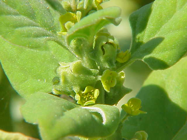 Species: Tetragonia echinata Family: Tetragoniaceae Image No. 1